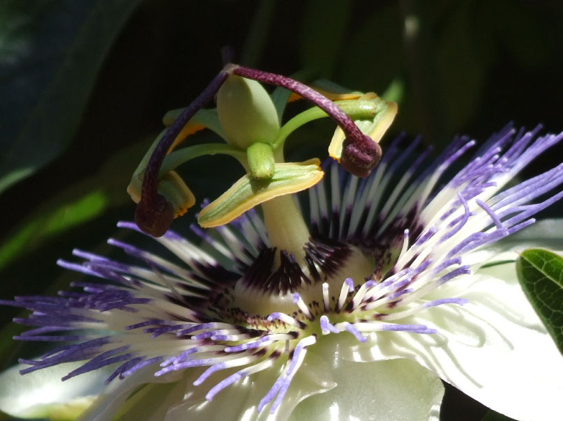 Passiflora caerulea, Blue Passion Flower